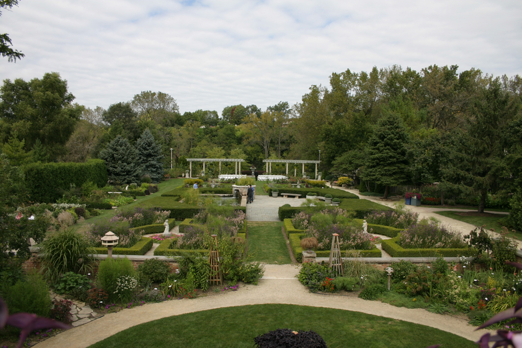 Wide view of Rotary Botanical Gardens, Janesville, Wisconsin. Overlooks the French, Italian, and Herb Gardens.